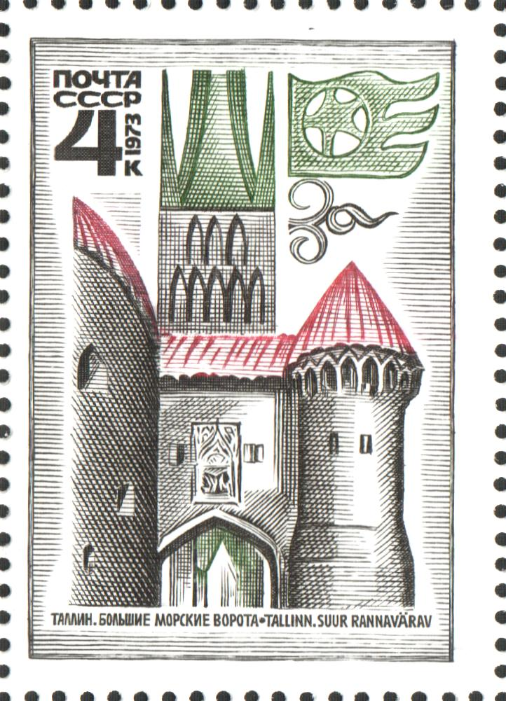 USSR stamp